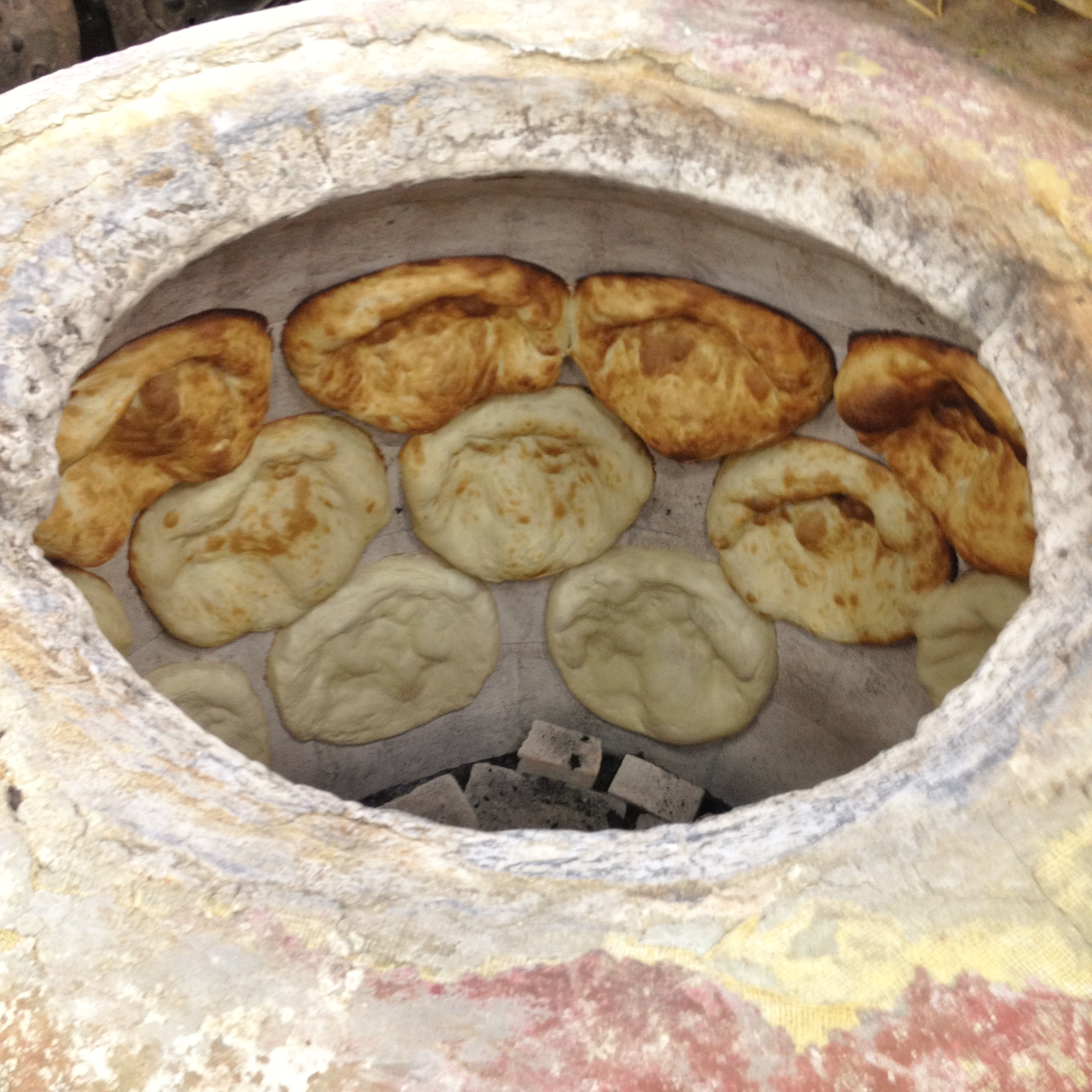 making of traditional georgian bread (tonis puri) in a cylindrical clay oven (tone)